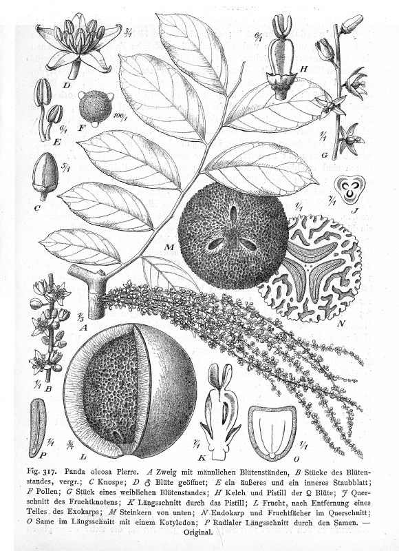 Panda oleosa (Pandaceae) from Vegetation der Erde (1915) v. 9 Bd. III, Heft 1. Fig. 317. by Adolf Engler (1844-1930)